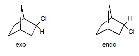 Configuração endo e exo do cloronorbanano